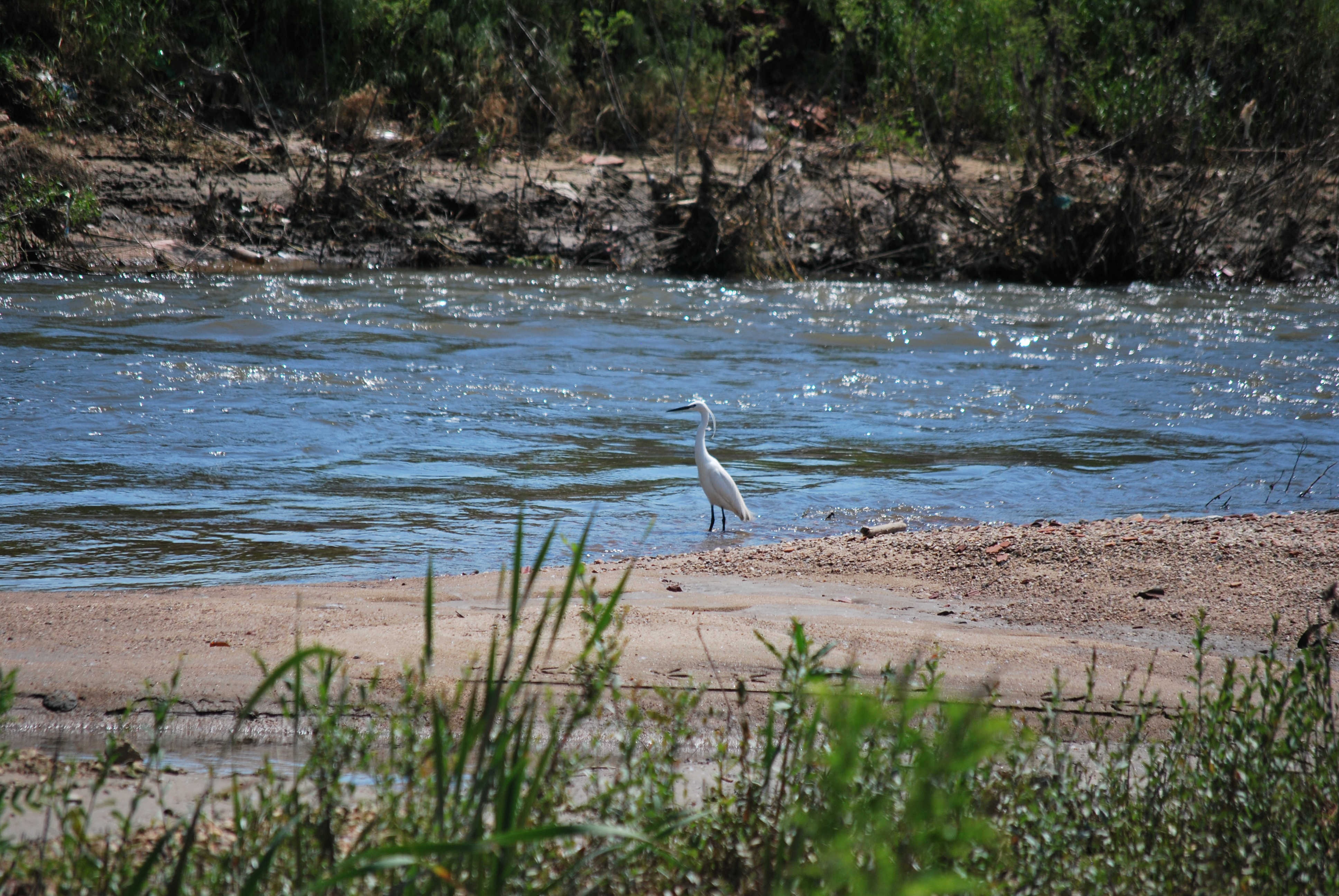 Bregalnica close to Kocani and Zrnovci